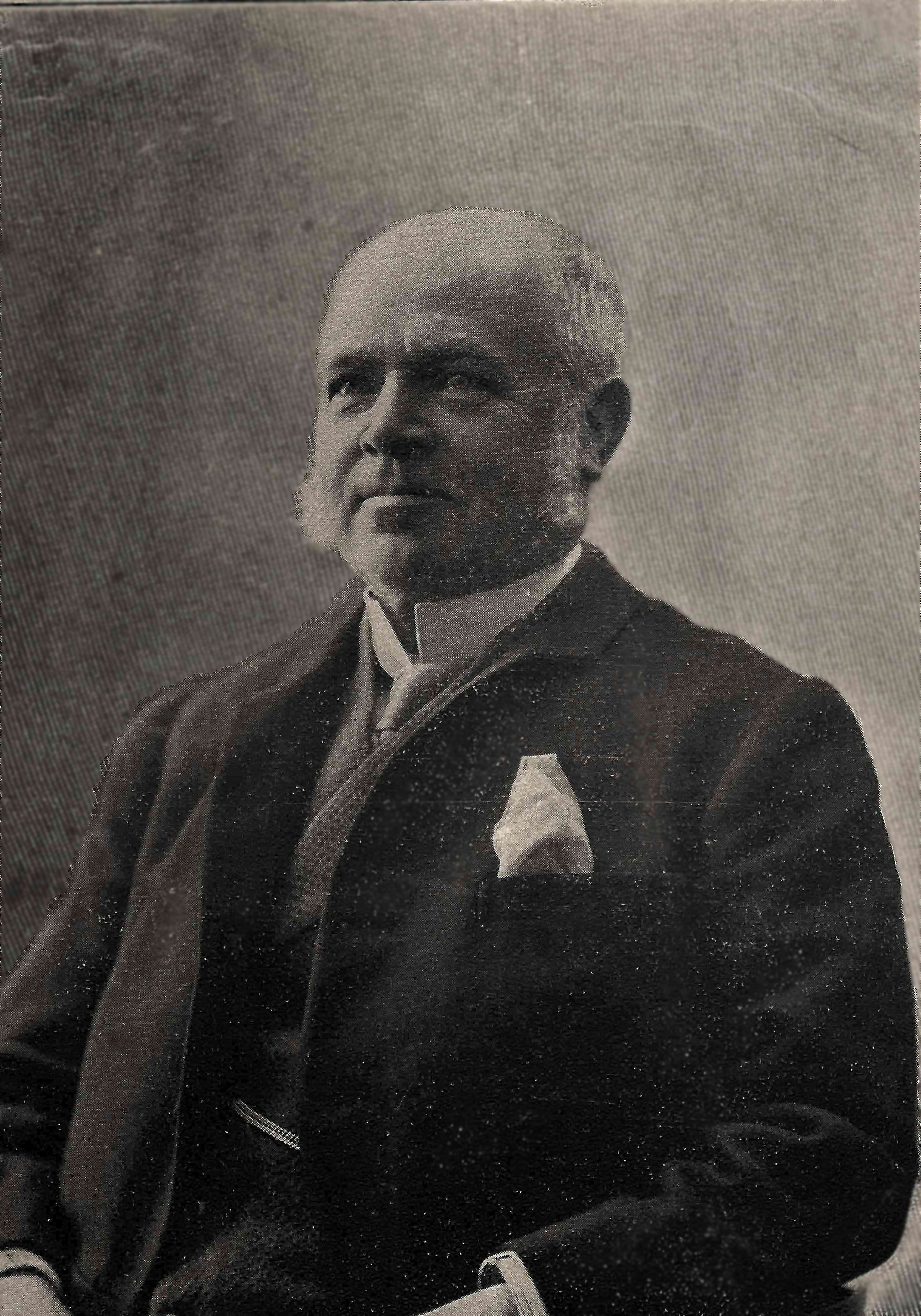 This is an image of Walter W. Law.